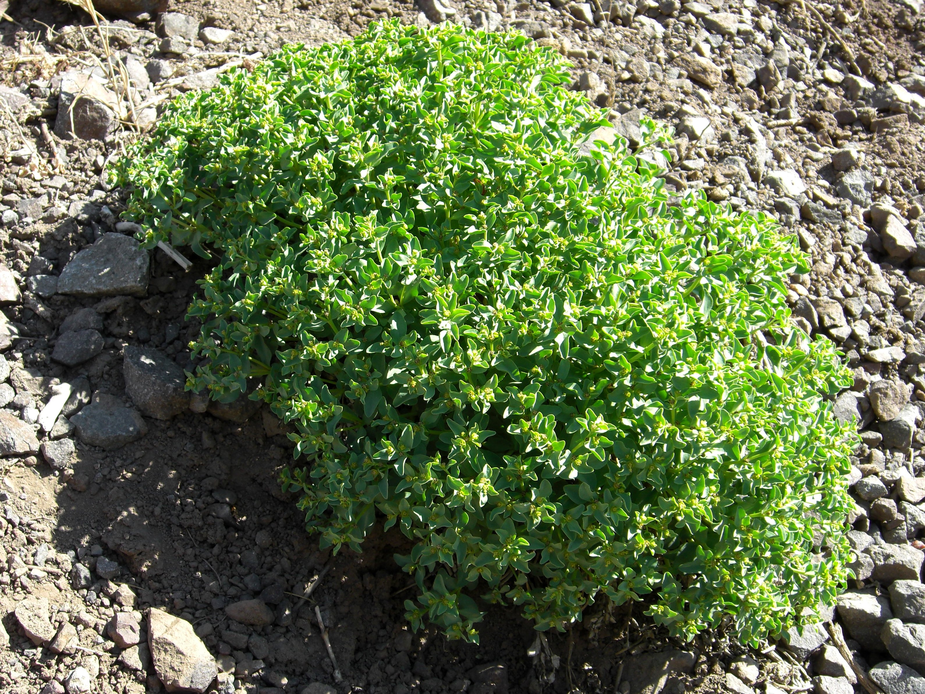 Euphorbia portulacoides 20081121.2 mountains east of Santiago, Chile